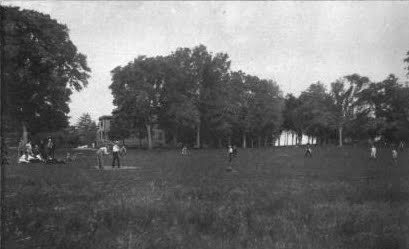 Betts Academy in Stamford Connecticut USA baseball game depicted